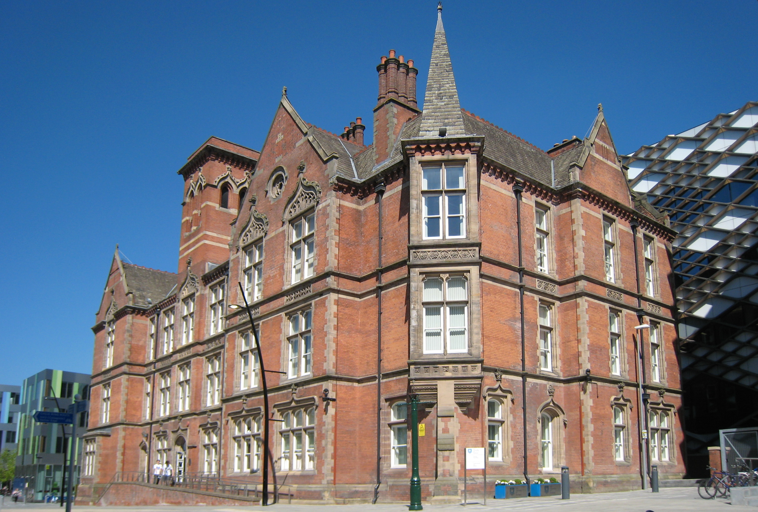 Jessop Hospital for Women, built 1878. Listed building 1995. Now part of the University of Sheffield. Victorian Gothic Revival. Slate roof. Ashlar dressing. Grade II listed